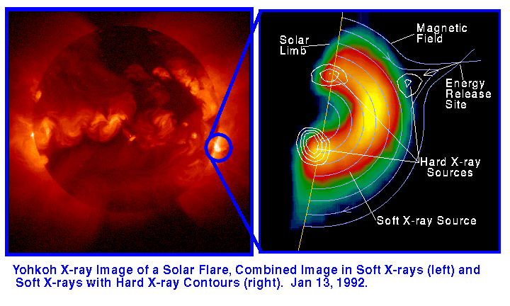 Captured in January 13 of 1992